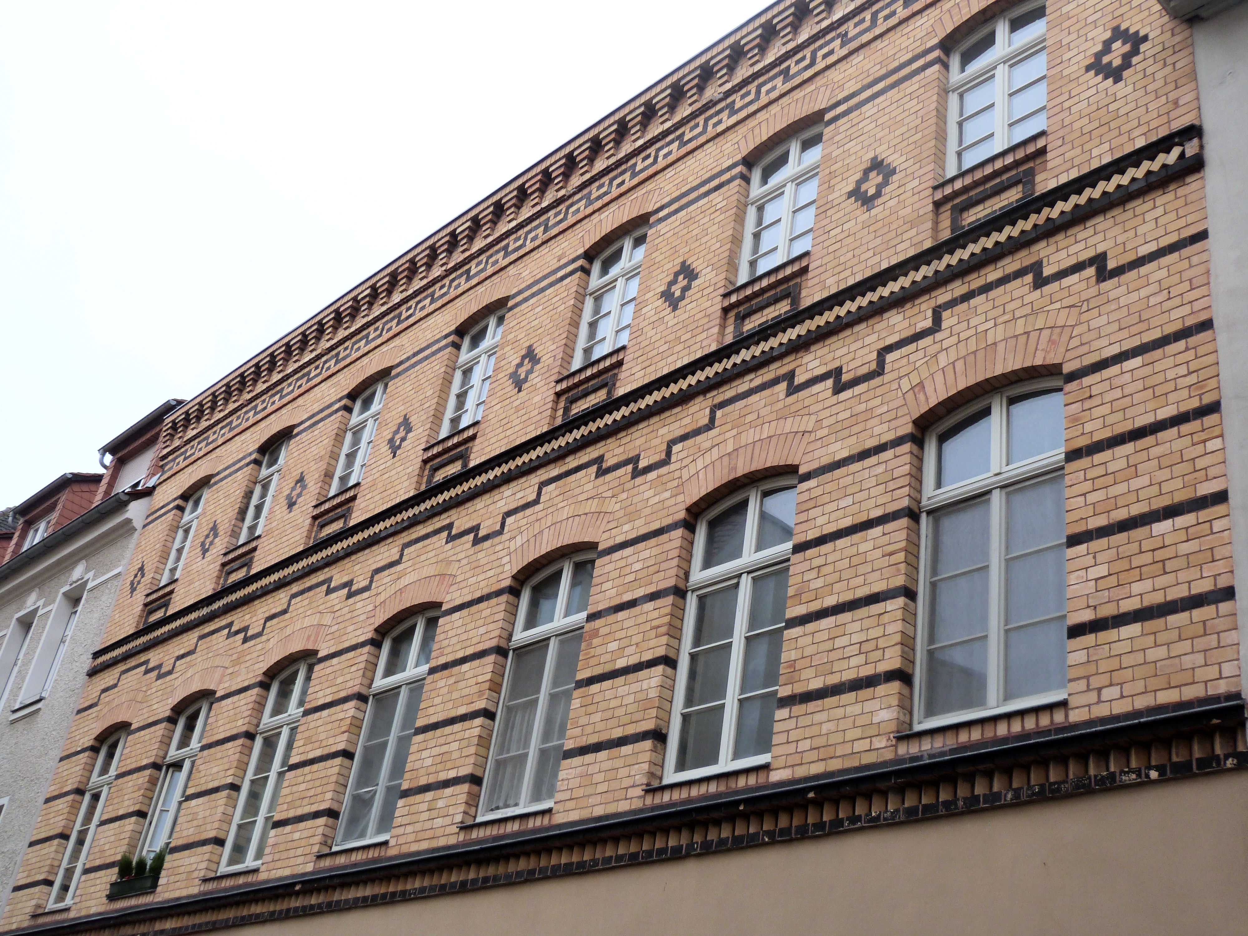 House No. 2 Sternstrasse in Halle (Saale)